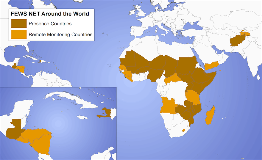 FEWS NET around the world